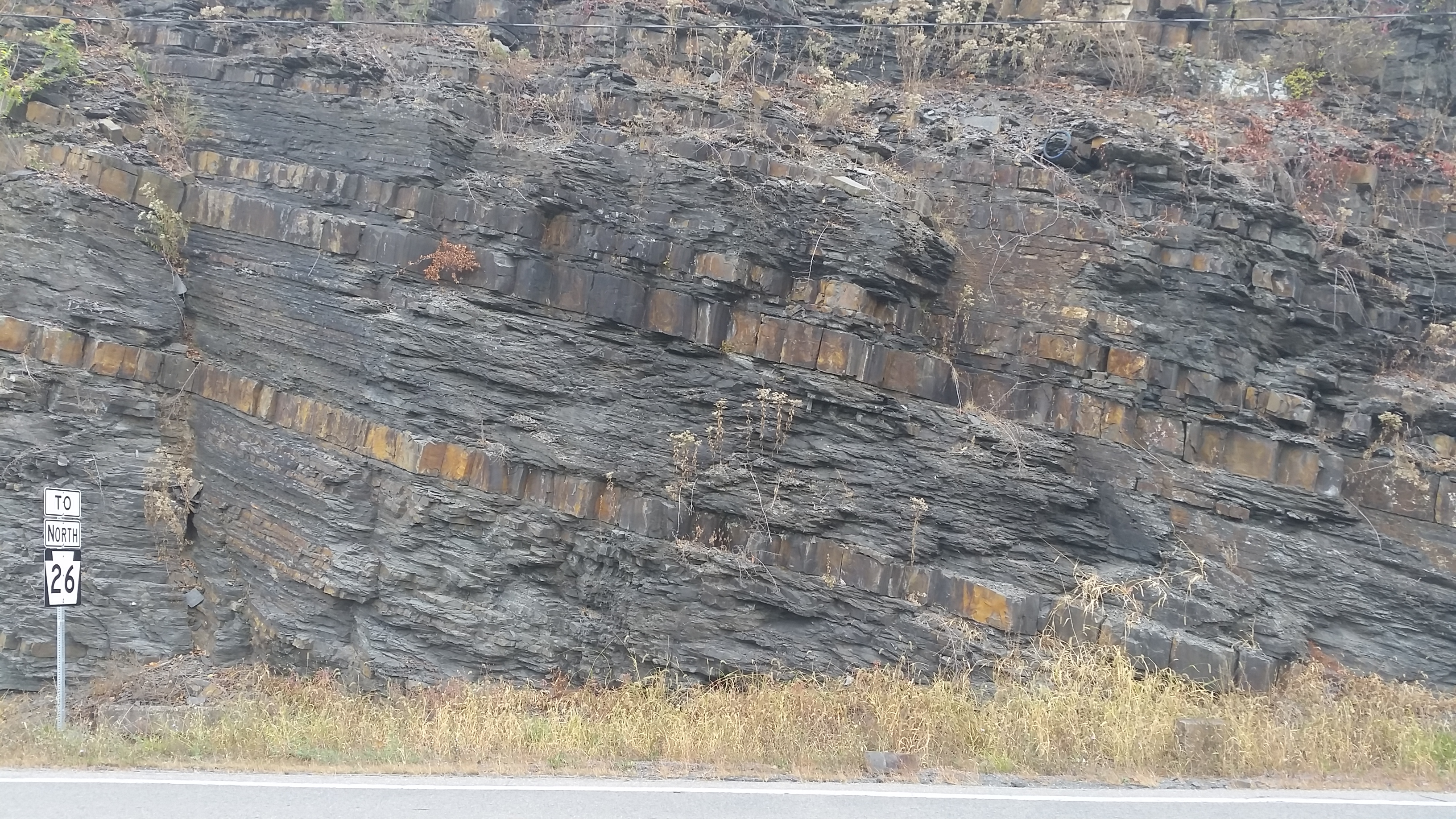 Exposure of the Devonian Brallier Formation in Huntingdon, Pennsylvania, along the ramp from U.S. Route 22 west to Pennsylvania Route 26 north. Facing roughly northeast. Thick blocky beds are sandstone and the intervening layers are shale. Taken at the 82nd Annual Field Conference of Pennsylvania Geologists.